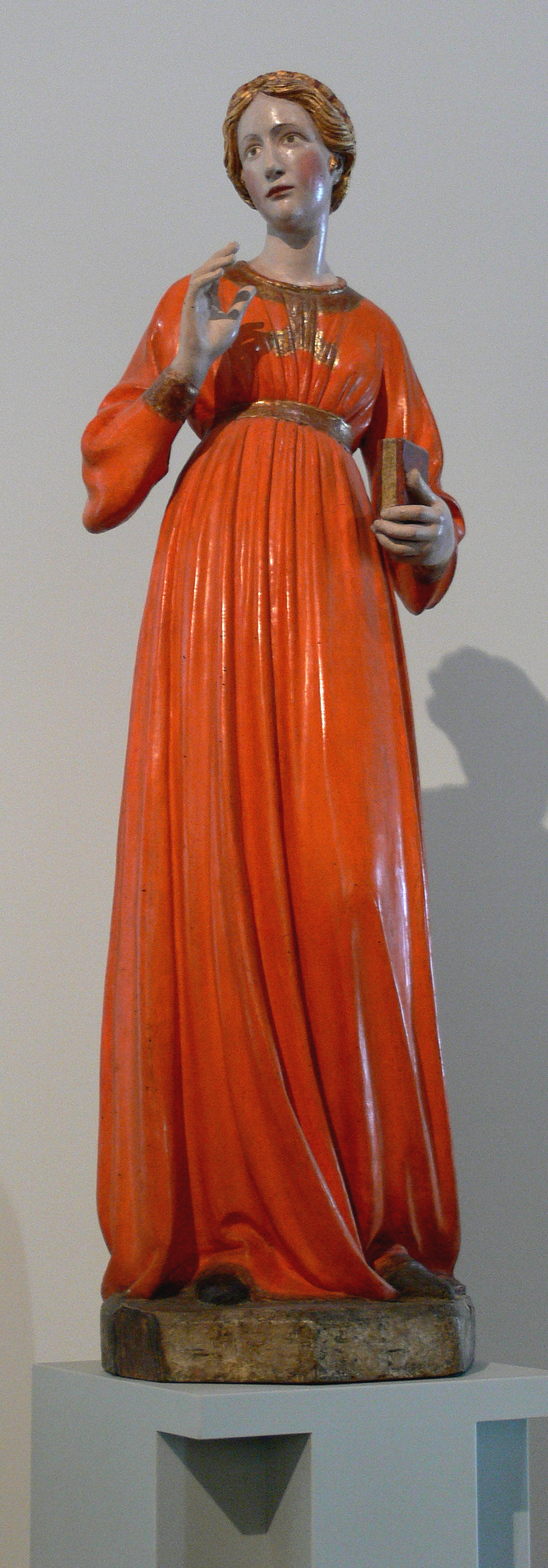 Mary from Anunciation